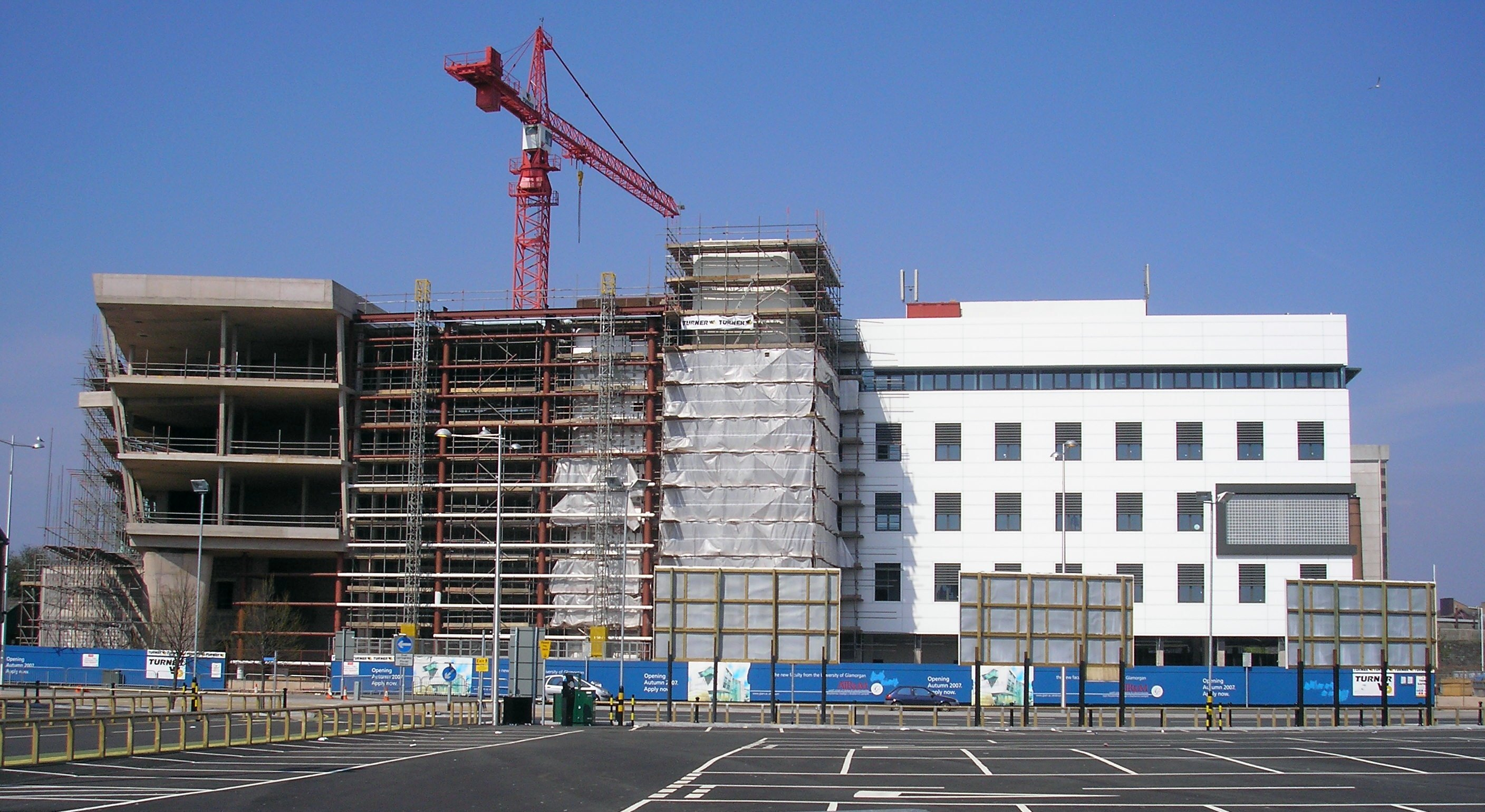 Atrium during construction, Cardiff, Wales